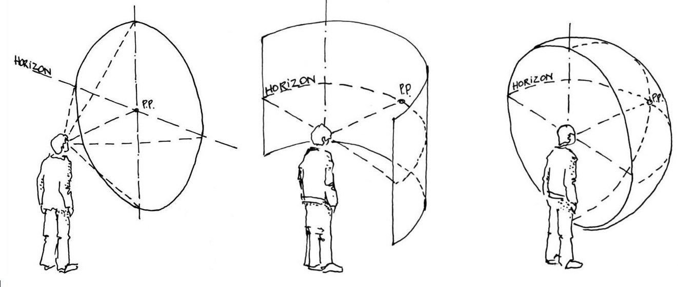 Three perspectives Conical perspective Cylindrical perspective Conformal perspective